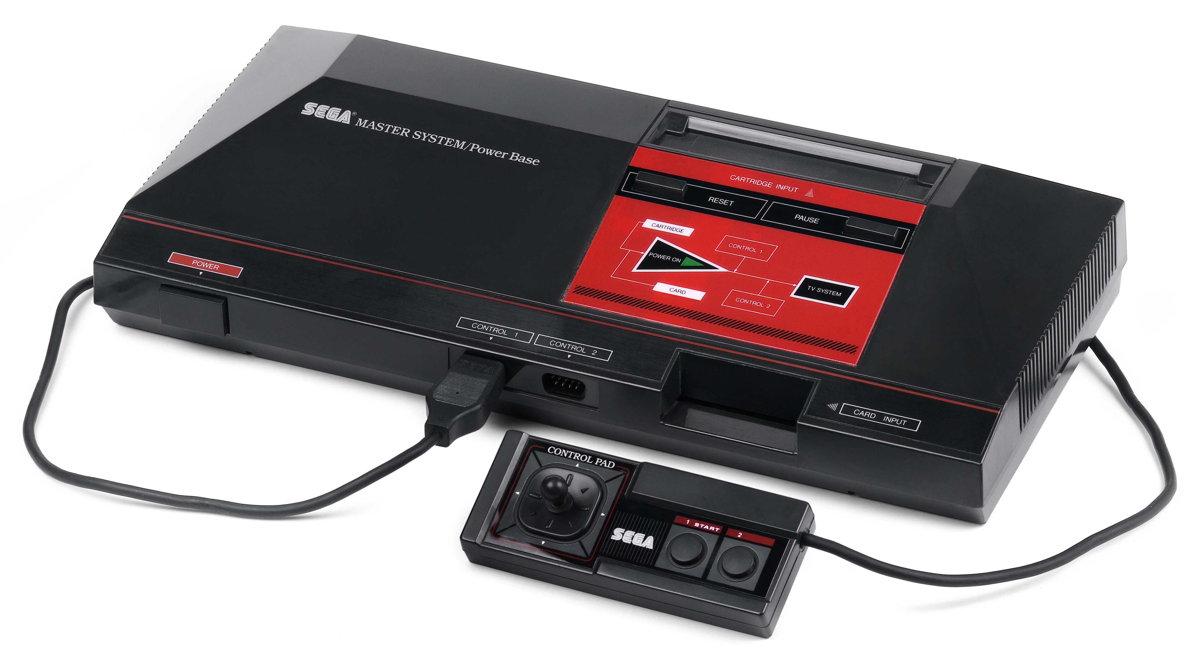 The Sega Master System video game console shown with original "joystick" controller. This is the JPG version.